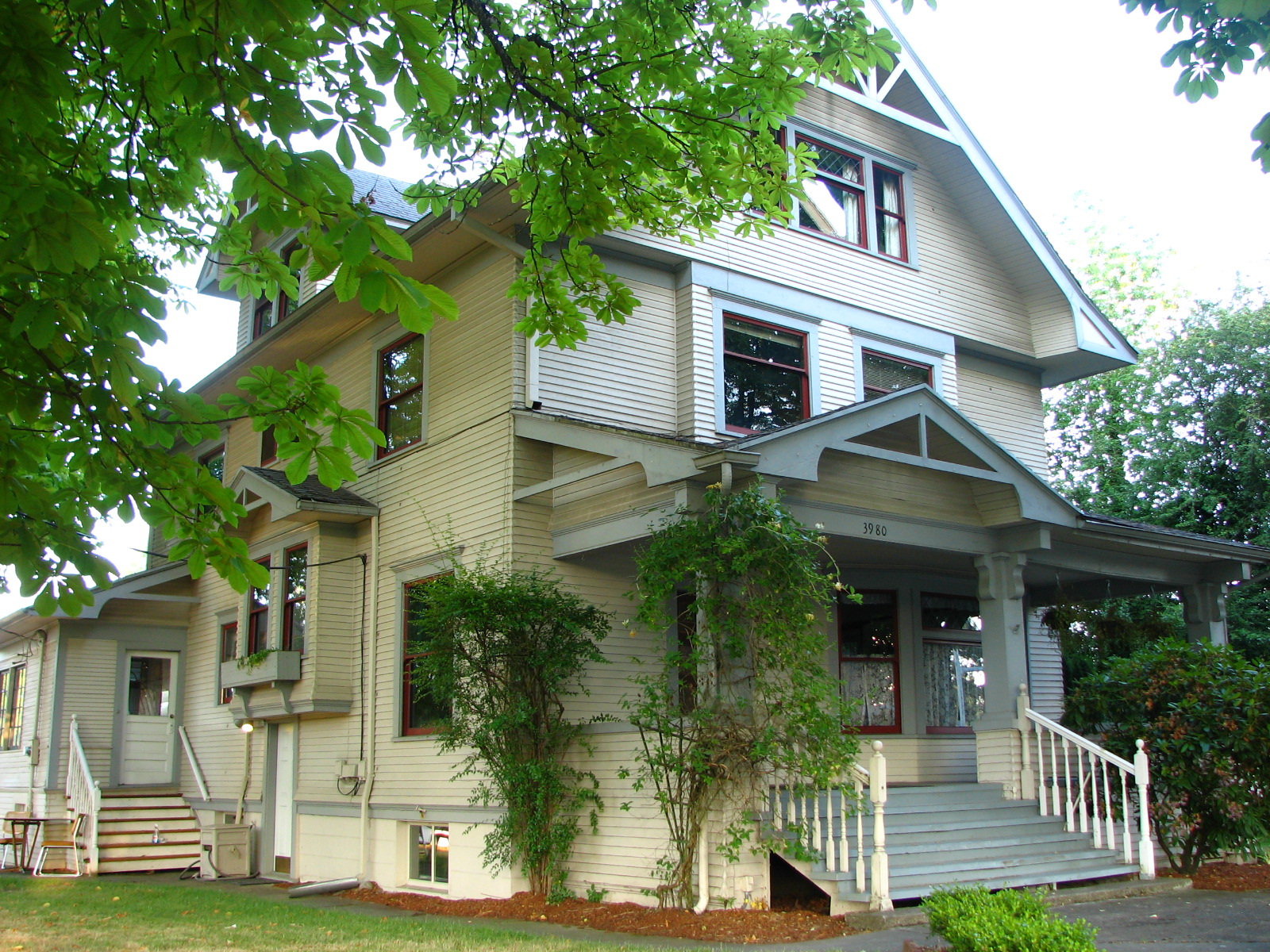 The historic M. E. Blanton House (built ca. 1912), located at 3980 Southwest 170th Avenue in Aloha, Oregon, United States, is listed on the US National Register of Historic Places. No longer used as a residence, the house has been redeveloped into office space.